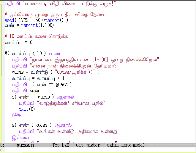 Ezhil Guessing Game source code